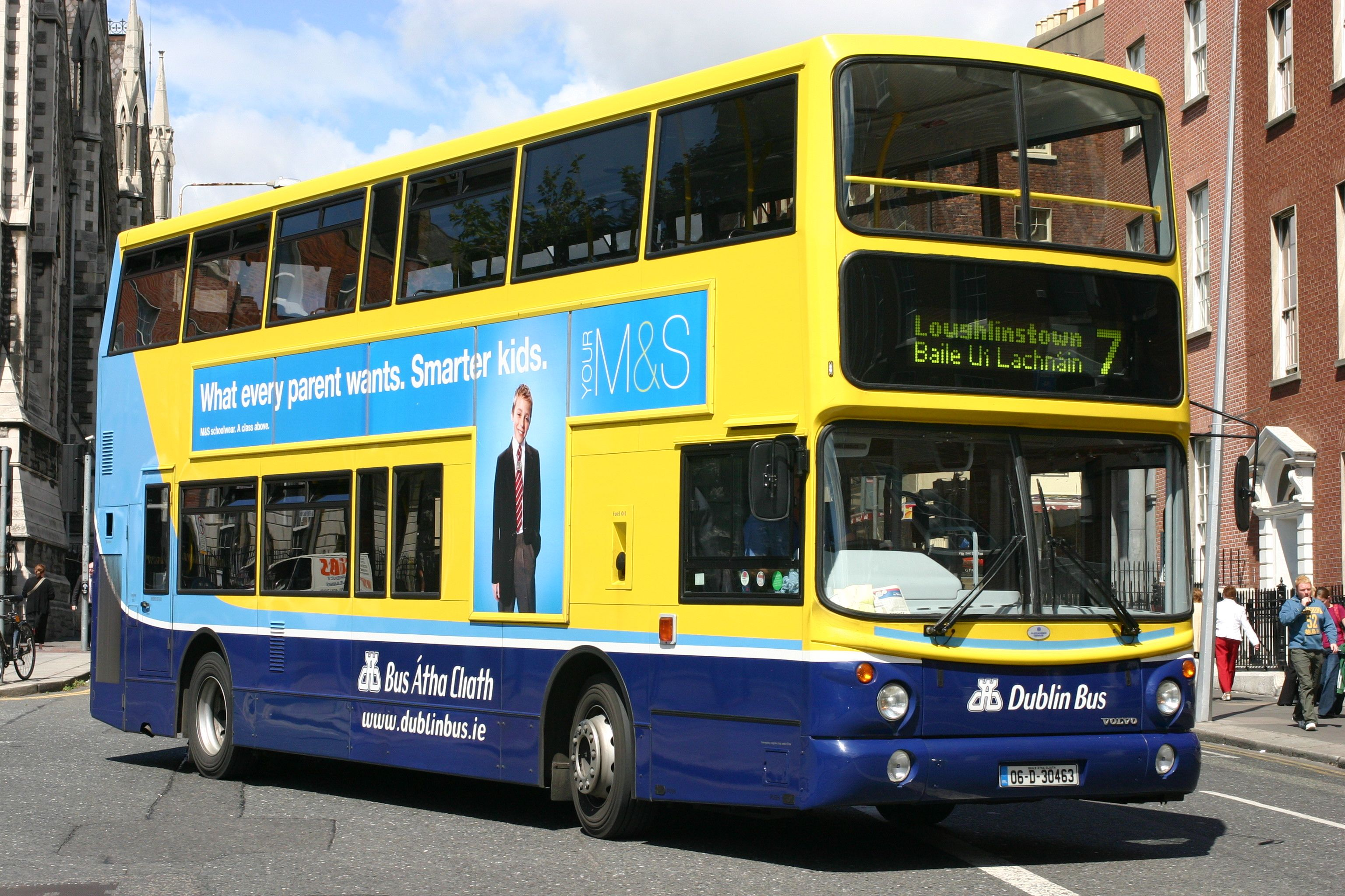 AX463 brand new in August 2006